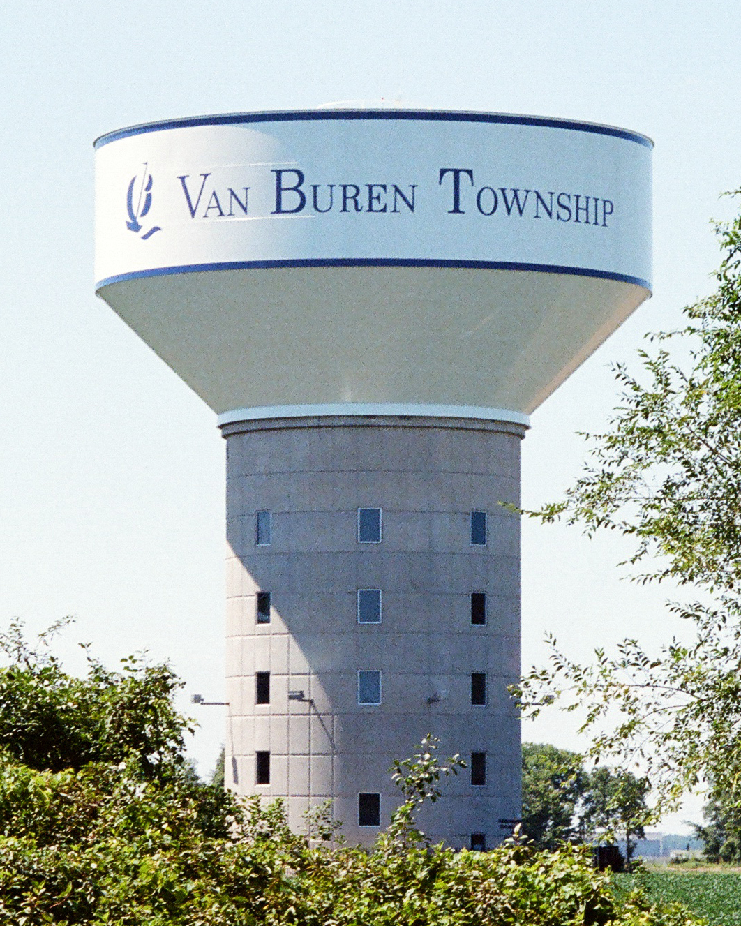 The Van Buren Charter Township, Michigan Water Tower shot on 35mm film.